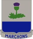 Distinctive Unit Insignia for the 338th Regiment.